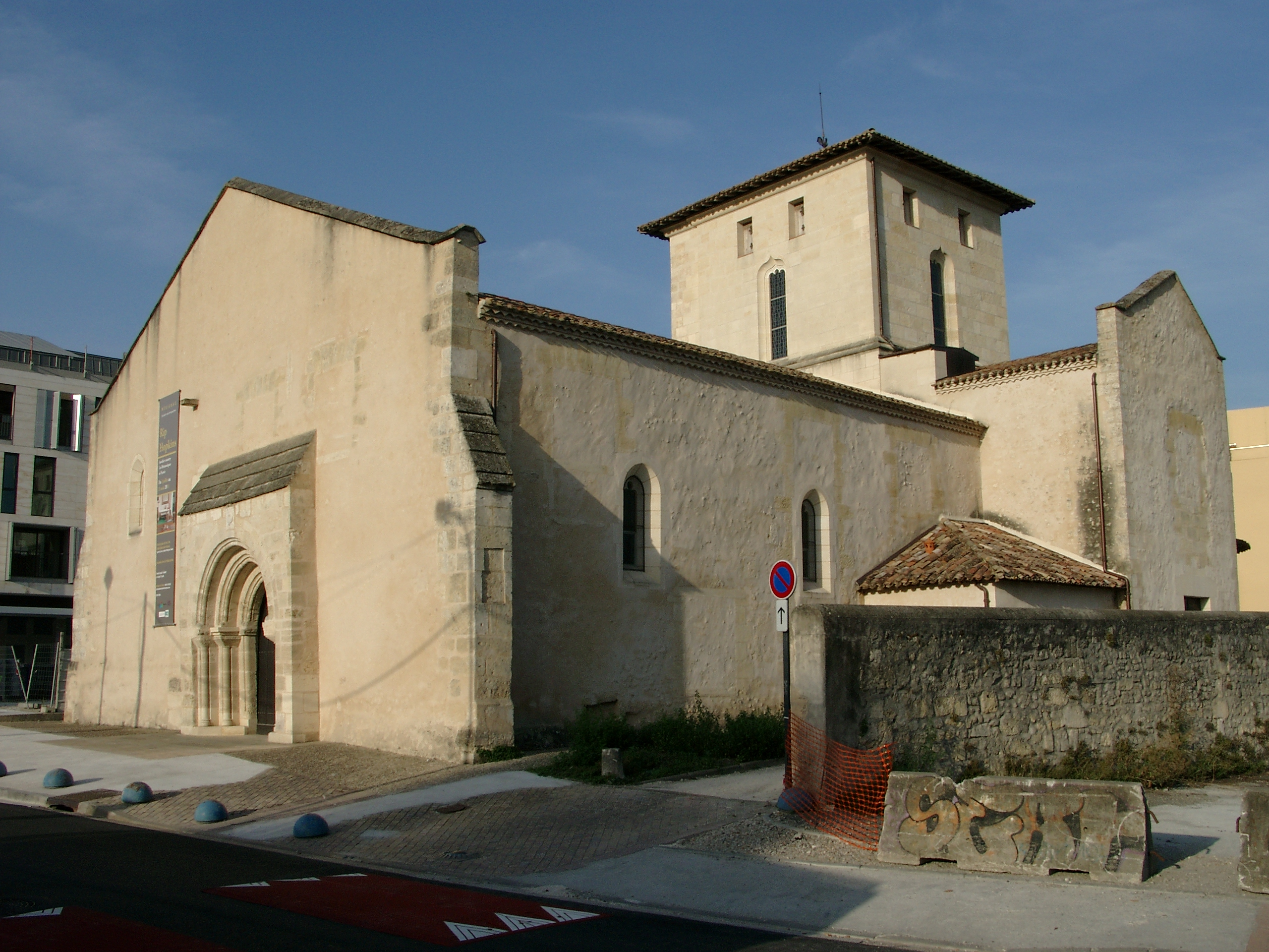 Old roman church (circa 1180) of Merignac city, France - Gironde.